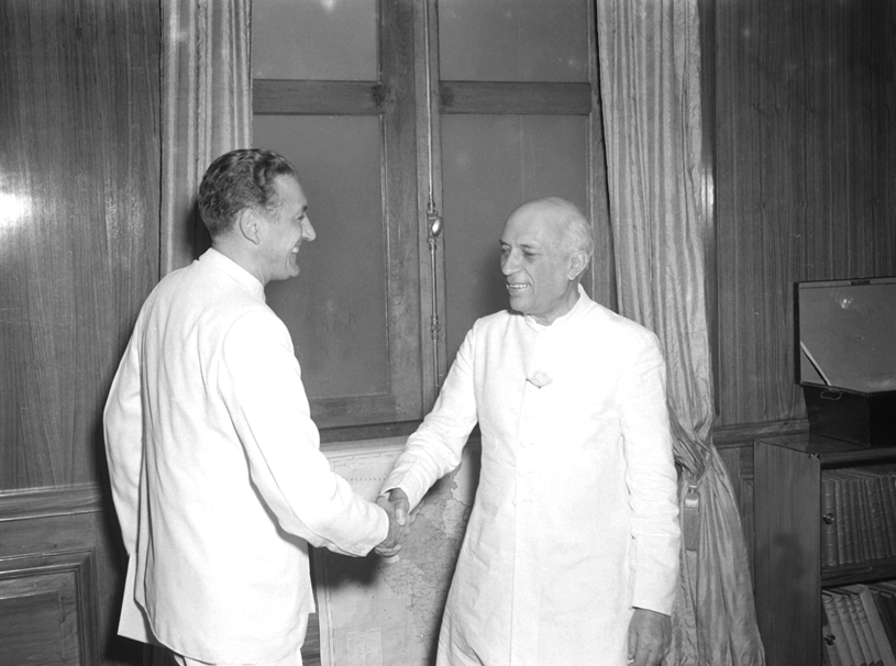 Ph. Studio/May, 1957, A22a(I)/A22a(iv)The Prime Minister, Shri Jawaharlal Nehru greeting the Chilean Ambassador-designate to India, Mr. Miguel Serrano Fernández, when the latter called on him at the Minister of External Affairs, New Delhi on May 30, 1957. Photo Number:-59108